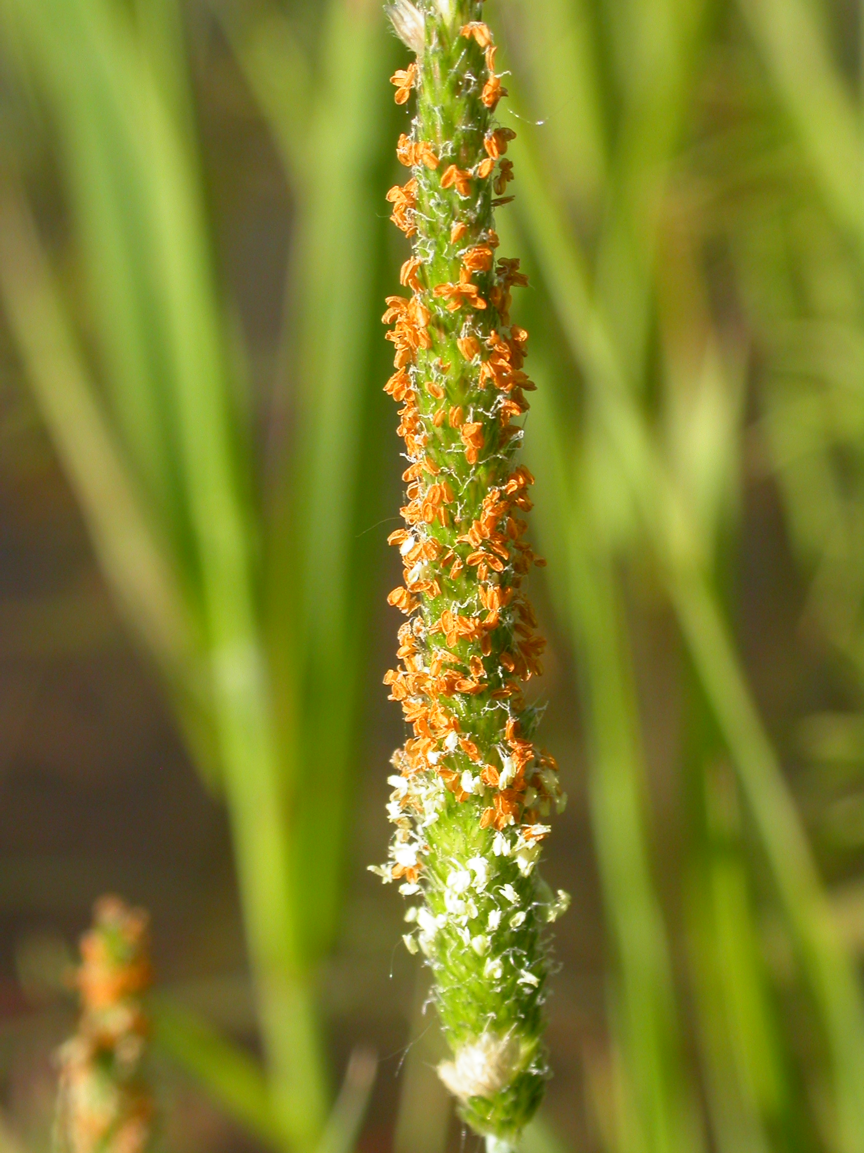 The slender cylindrical inflorescence spike is characteristic of this species.